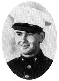 United States Marine Corps Corporal Milton Lewis